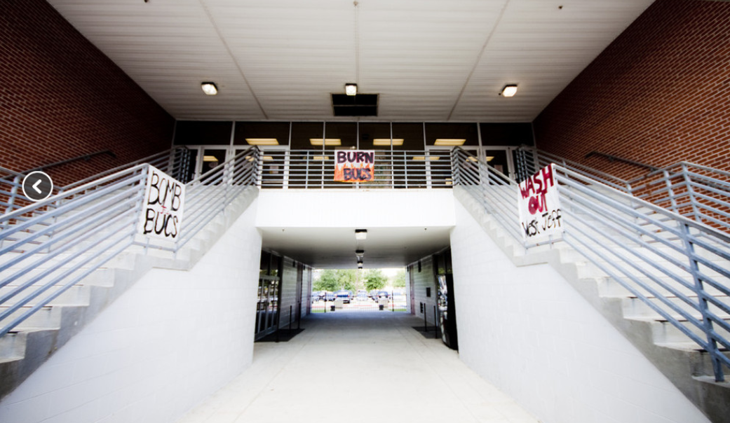 Breezeway of the Humanities Building. There are two stairwells, and two sets of doors on the first floor.